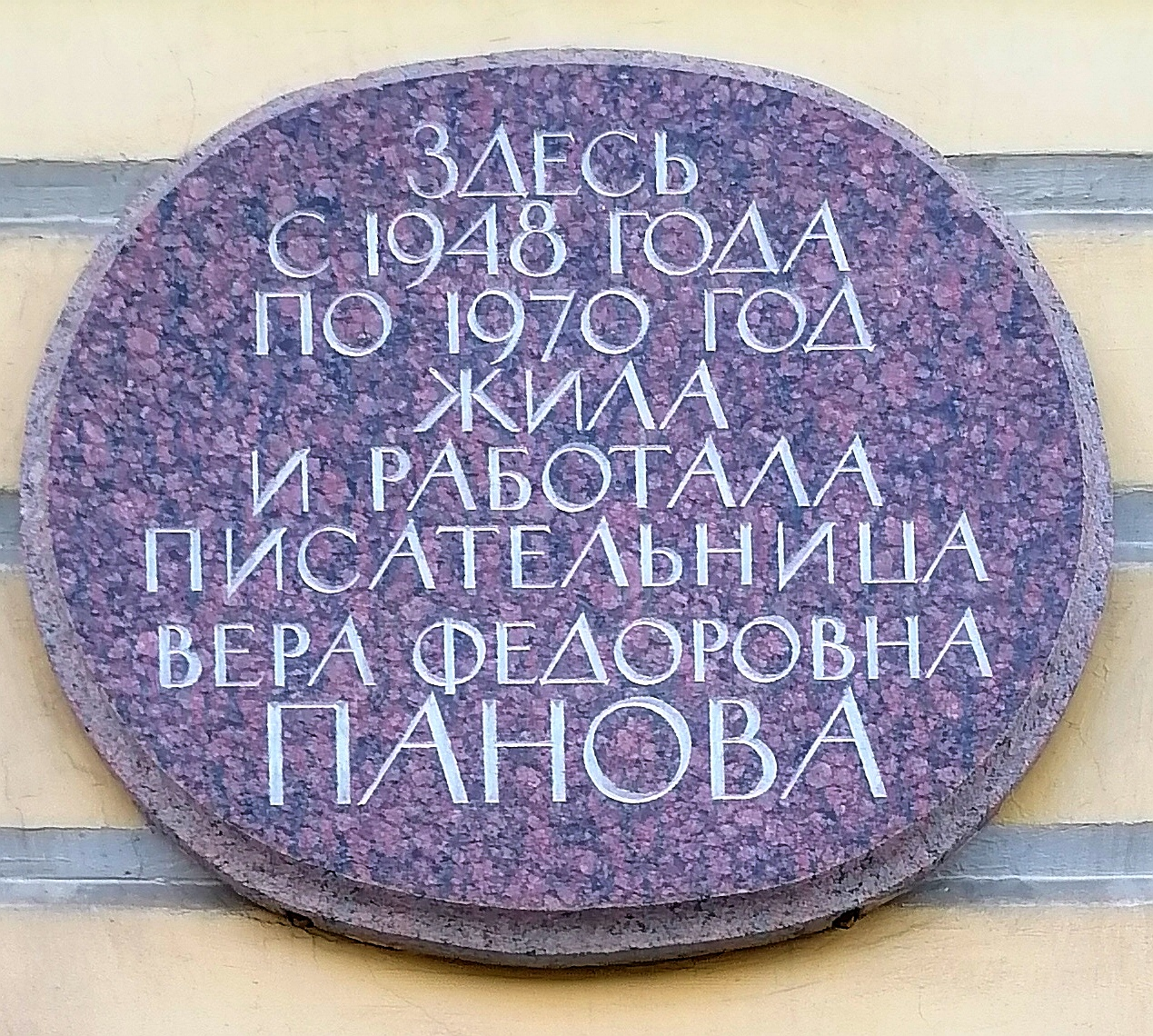 Commemorative plaque of russian writer Vera Panova (1905-1973). Saint Petersburg, Field of Mars, 7.